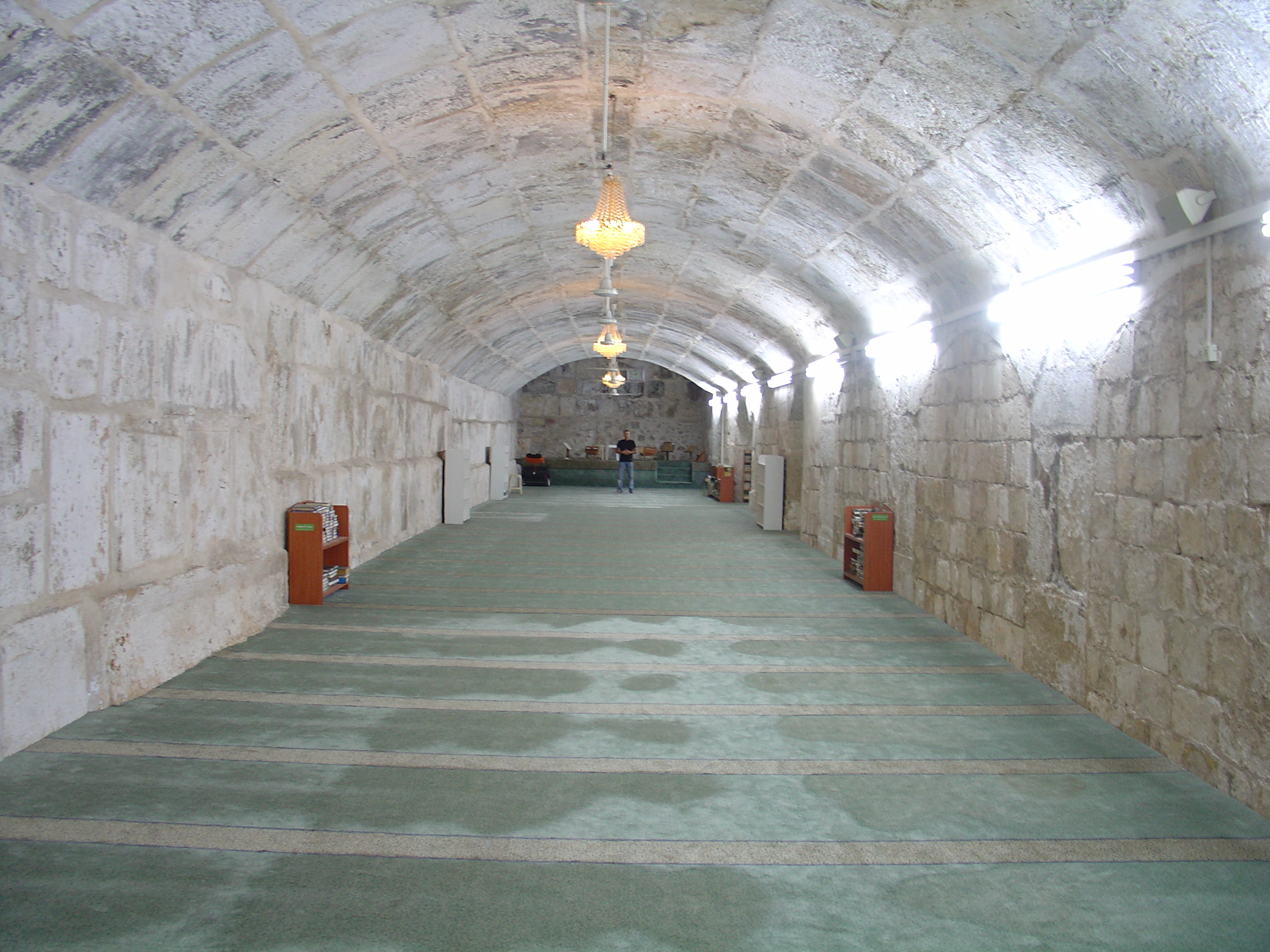 Al-Aqsa Mosque